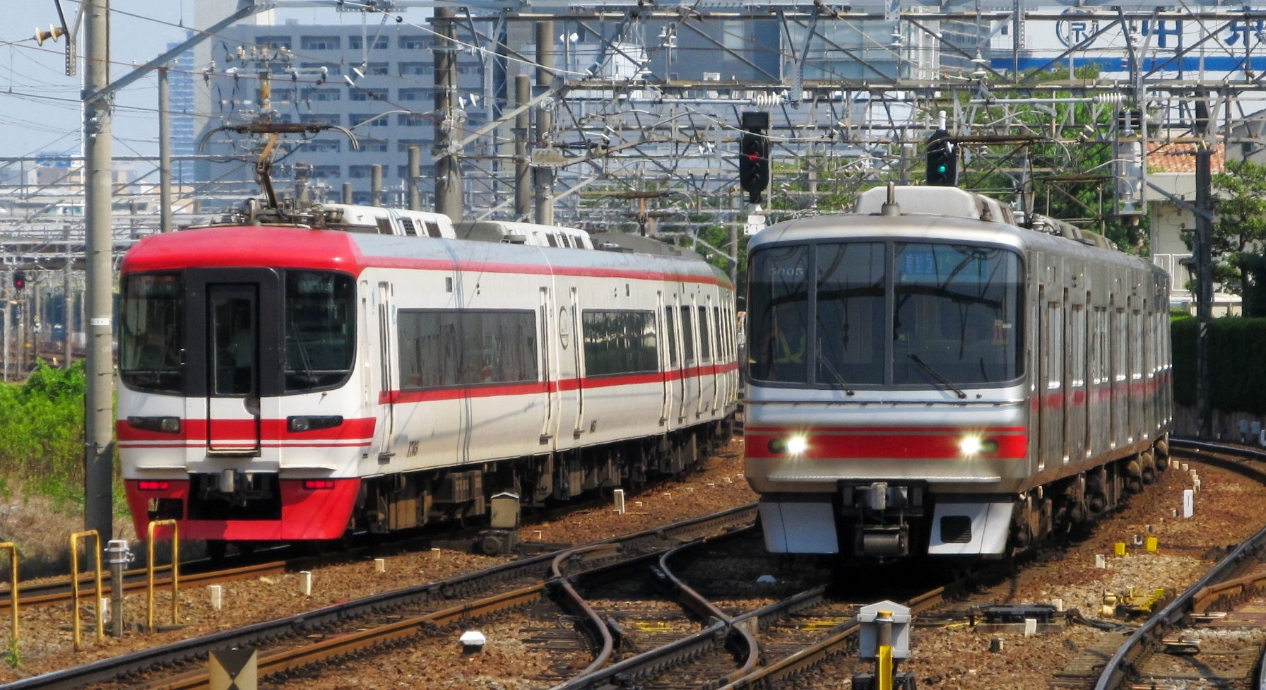 Meitetsu 5000 series (Right) and 1700 series (Left) EMU